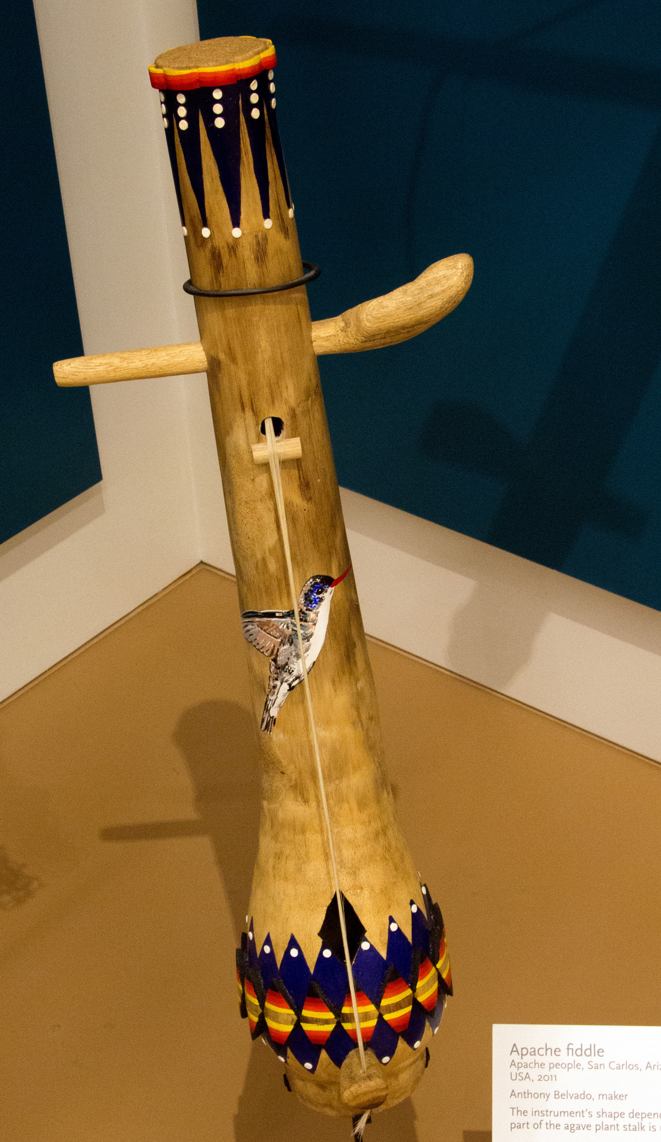 Arizona Apache fiddle made by Anthony Belvado, San Carlos, Arizona, 2011. Kept at the Musical Instrument Museum - Phoenix, Arizona. The hollow body is made of an agave cactus stalk.